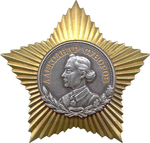 Order of Suvorov 2nd class